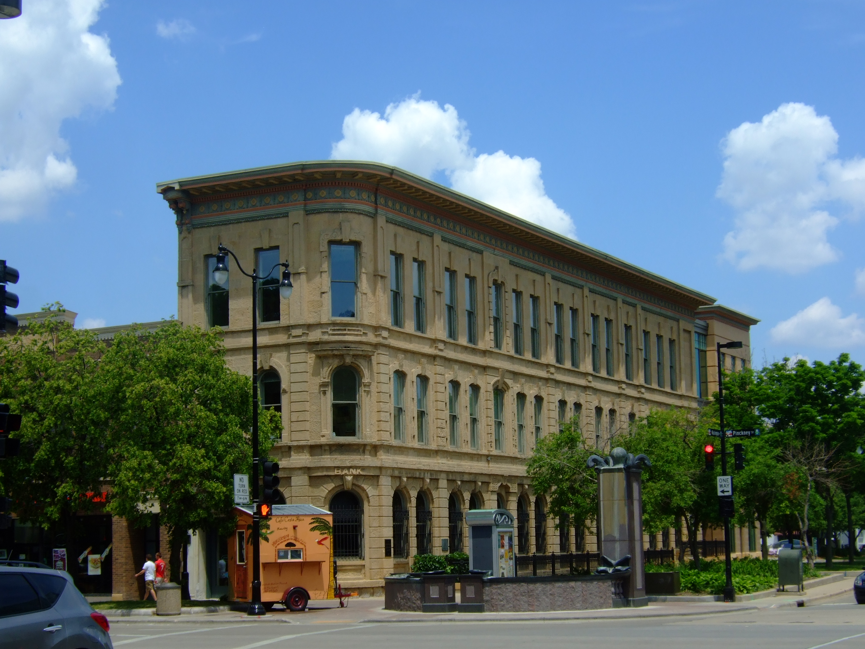 The American Exchange Bank (1871) in Madison, Wisconsin, was added to the National Register of Historic Places in 1980. This Italian Renaissance Revival style structure, a distinguished example of its type, was designed by architect Stephen Vaughn Shipman. Built of Madison sandstone as the Park Savings Bank, the structure occupies the former site of the American House (1838-1868), where the first territorial legislative session was held on November 26, 1838. The American Exchange Bank, which moved to the building in 1922, has been a Madison institution since 1871.